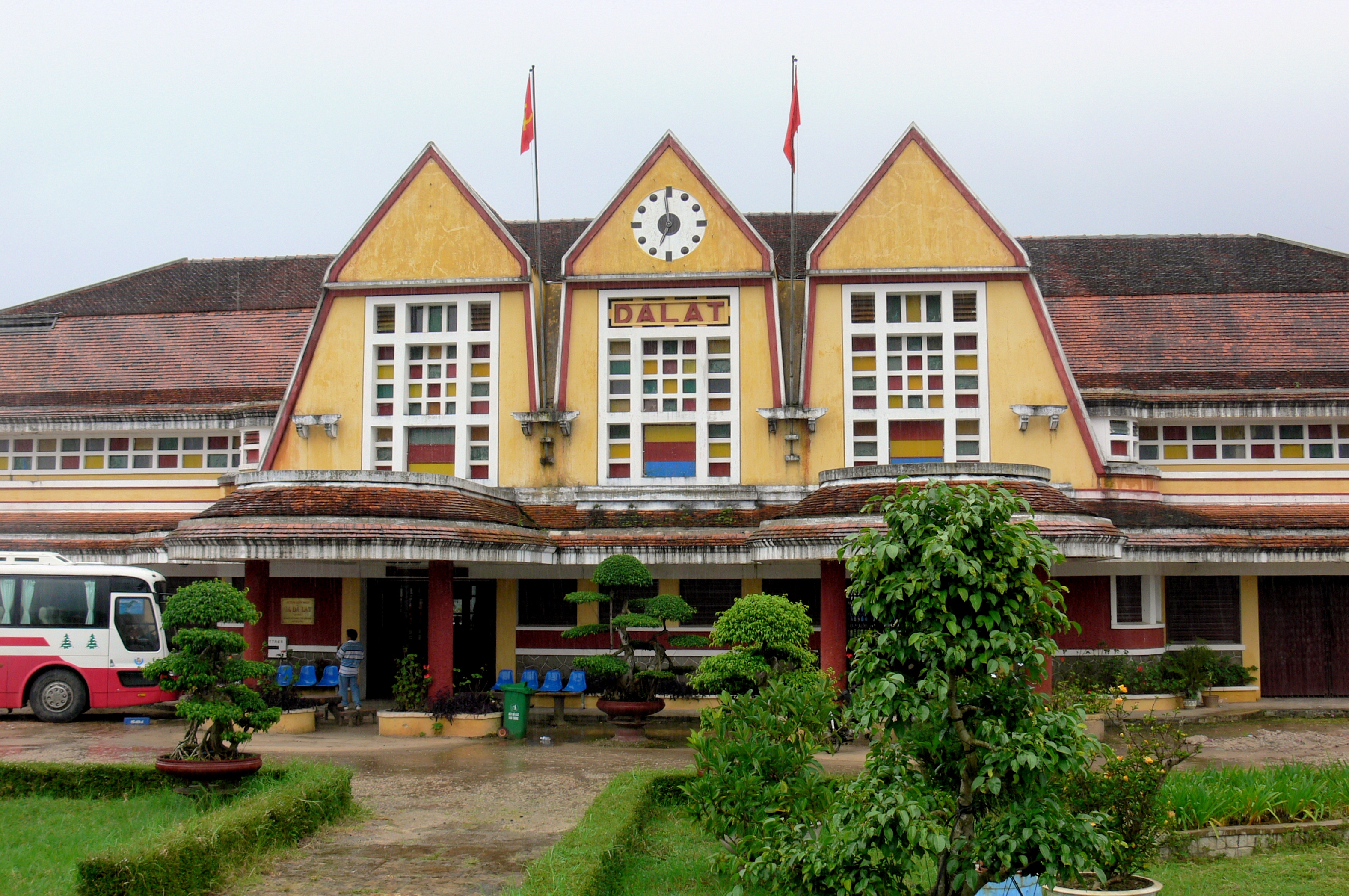 Train Station of Da Lat (Vietnam)